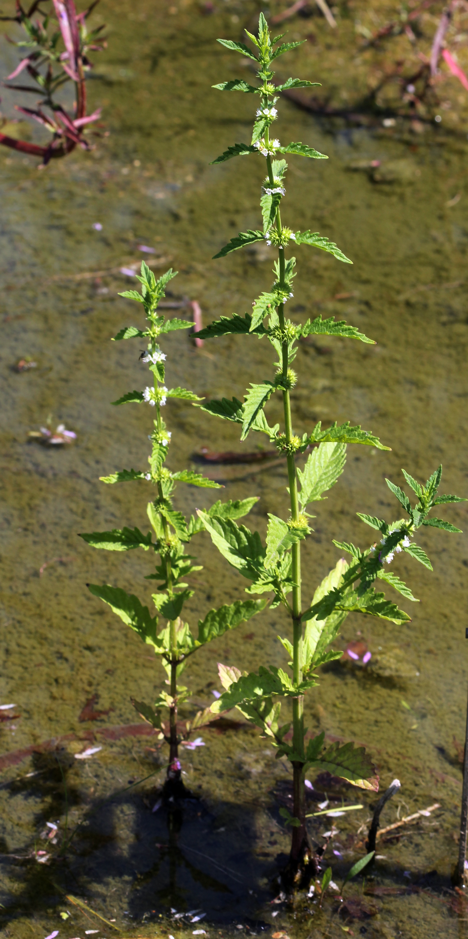 Plant Lycopus europaeus, (Lycopus europaeus), the Botanical Gardens of Charles University, Prague, Czech Republic